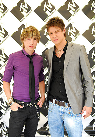 Sonohra